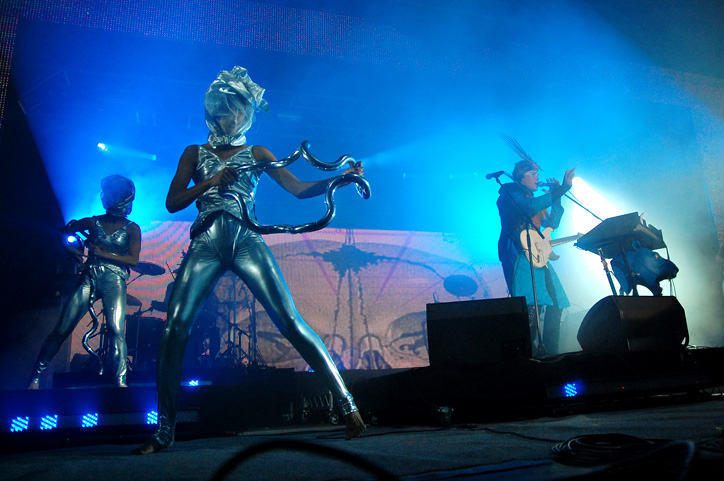 Australian band Empire of the Sun performing at Wellington Square in 2009.